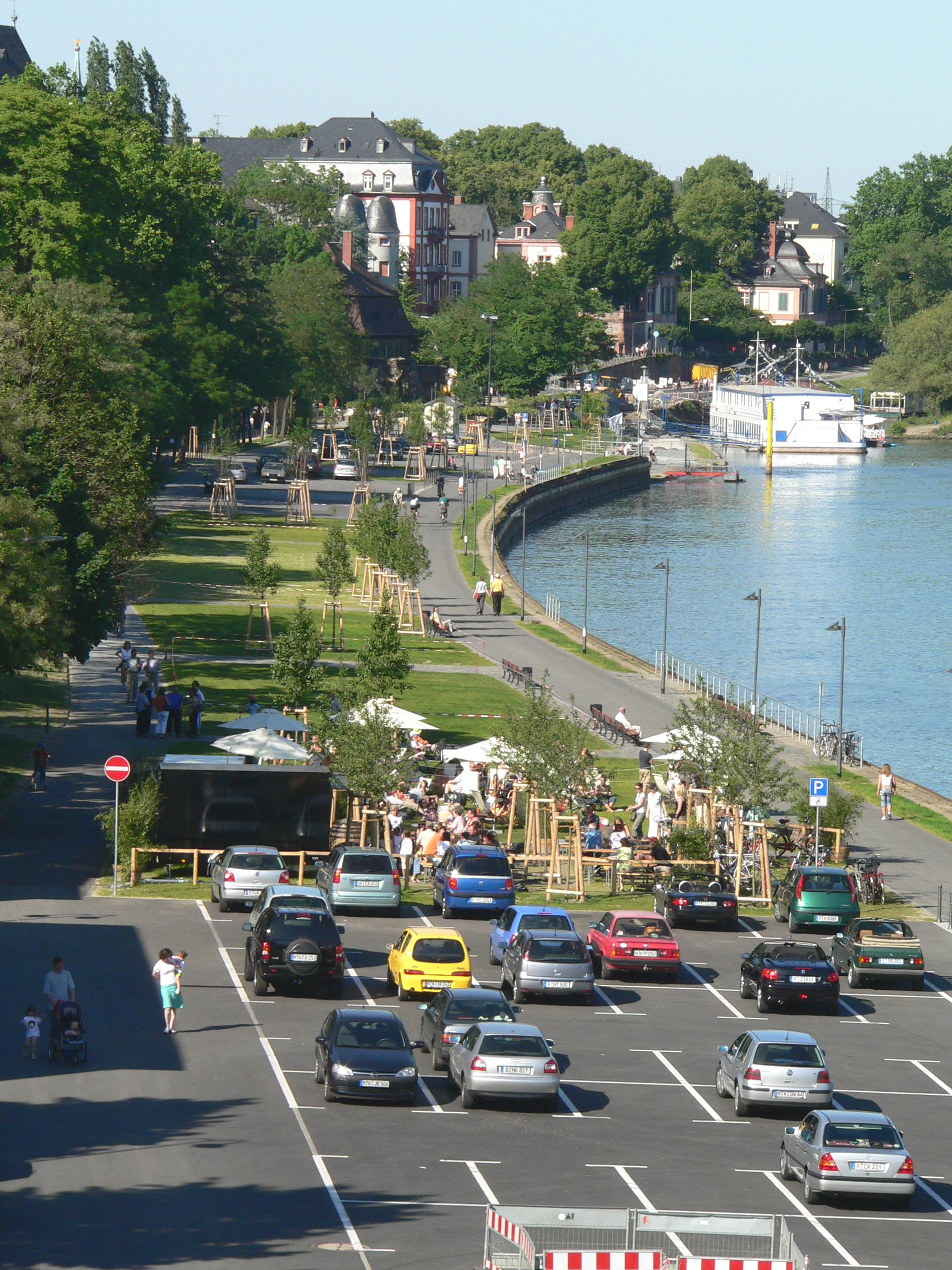 Main bank in Höchst, called „Batterie“ („Battery“)